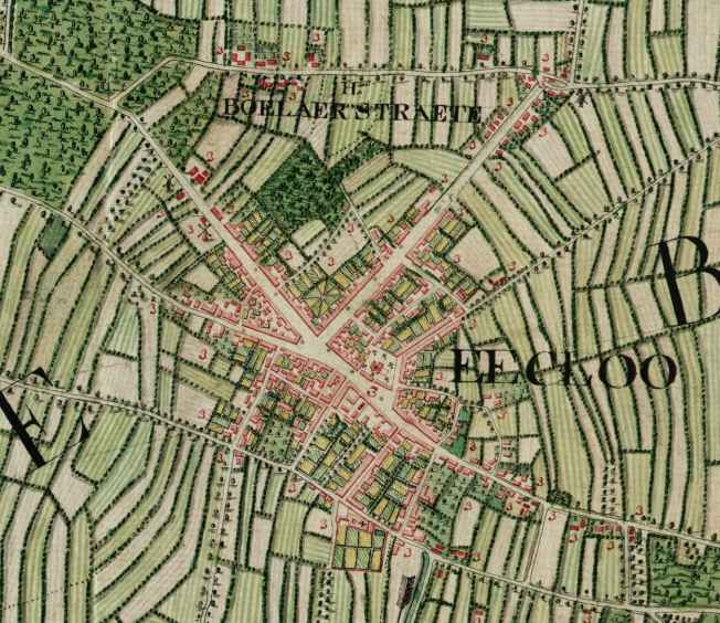 Eeklo, Belgium_;_ detail from Ferraris_Map